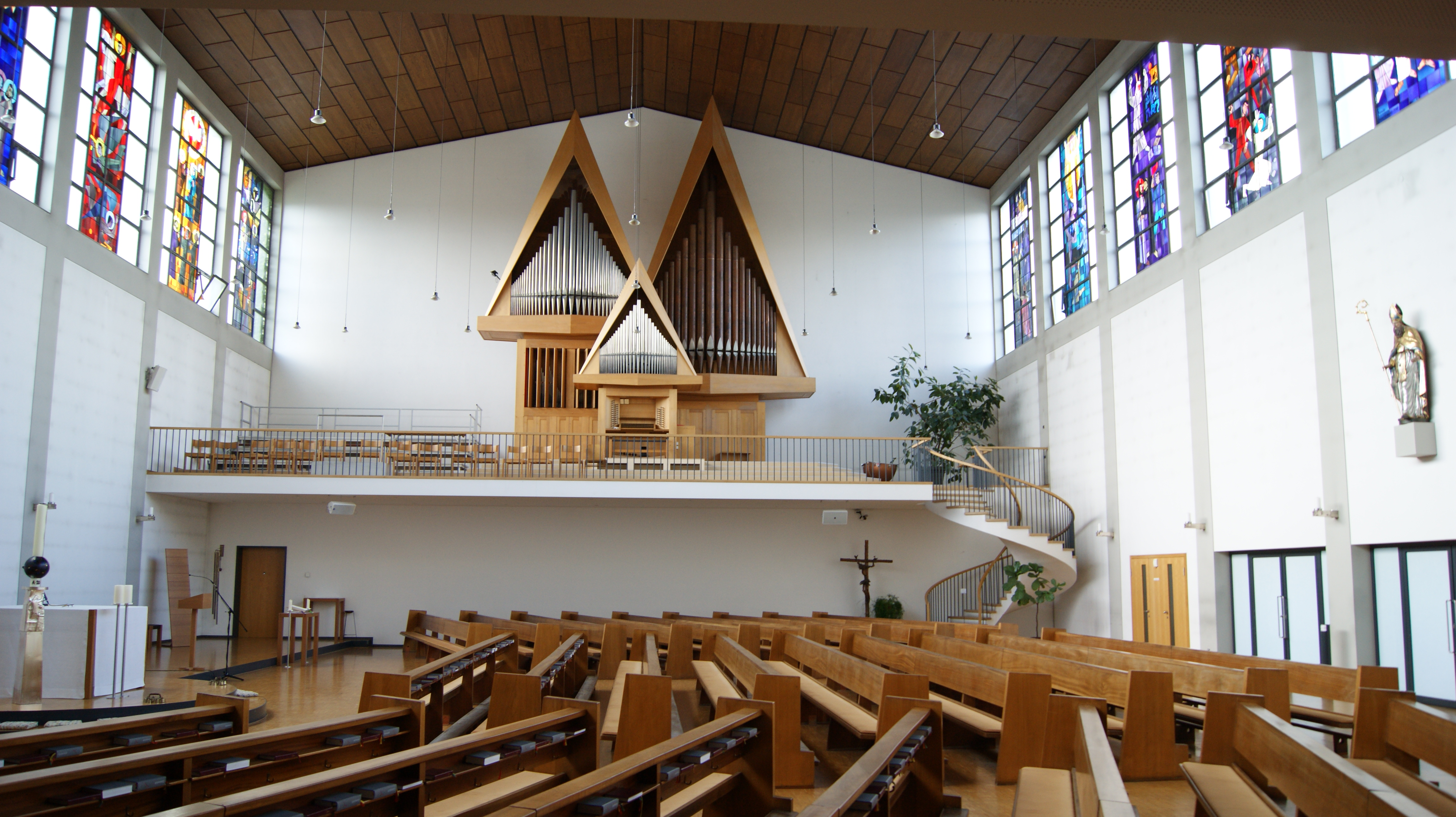 Parish Church St. Nicholas in Altach, Vorarlberg, Austria. New 1956-1960 by the architect Norbert Kopf. Benediction 1962. Organ and gallery.